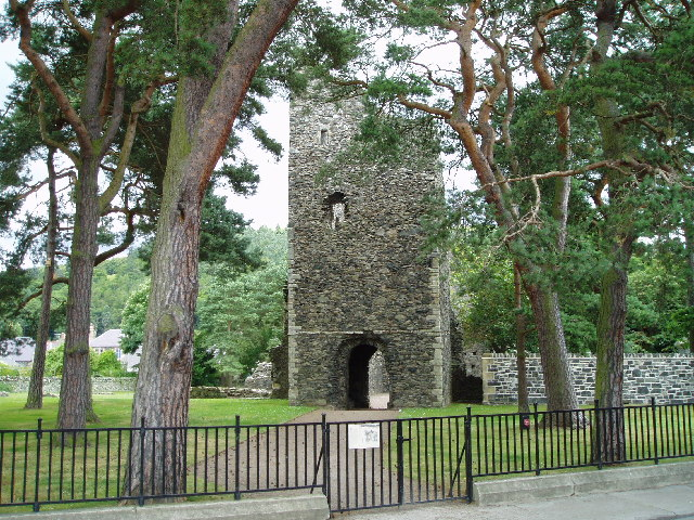 Holy Cross Church, Peebles. This church was founded in the 12th century. Its ruins are now cared for by Historic Scotland.